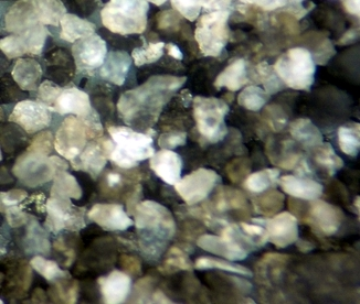 Cadotte Member sandstone - Microscope photo